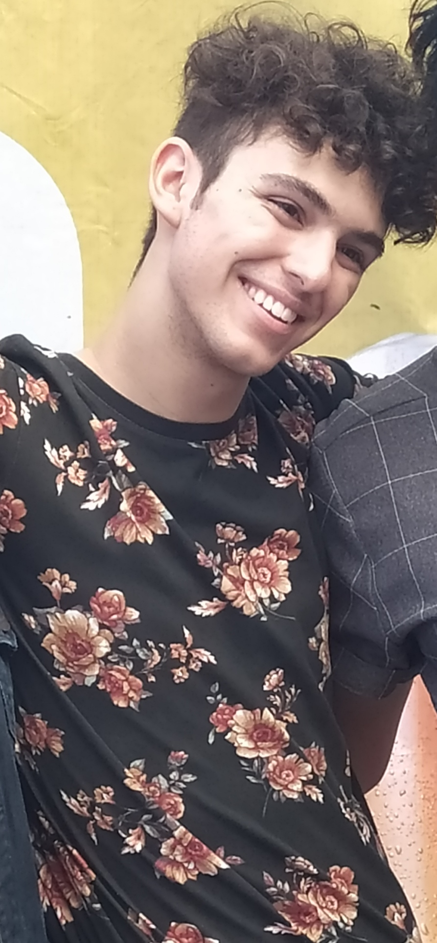 Saturday, January 25, 2020. Plaza Puerto Cancun at the start of the Joaquín Bondoni autograph firm in Buffalo Wild wings